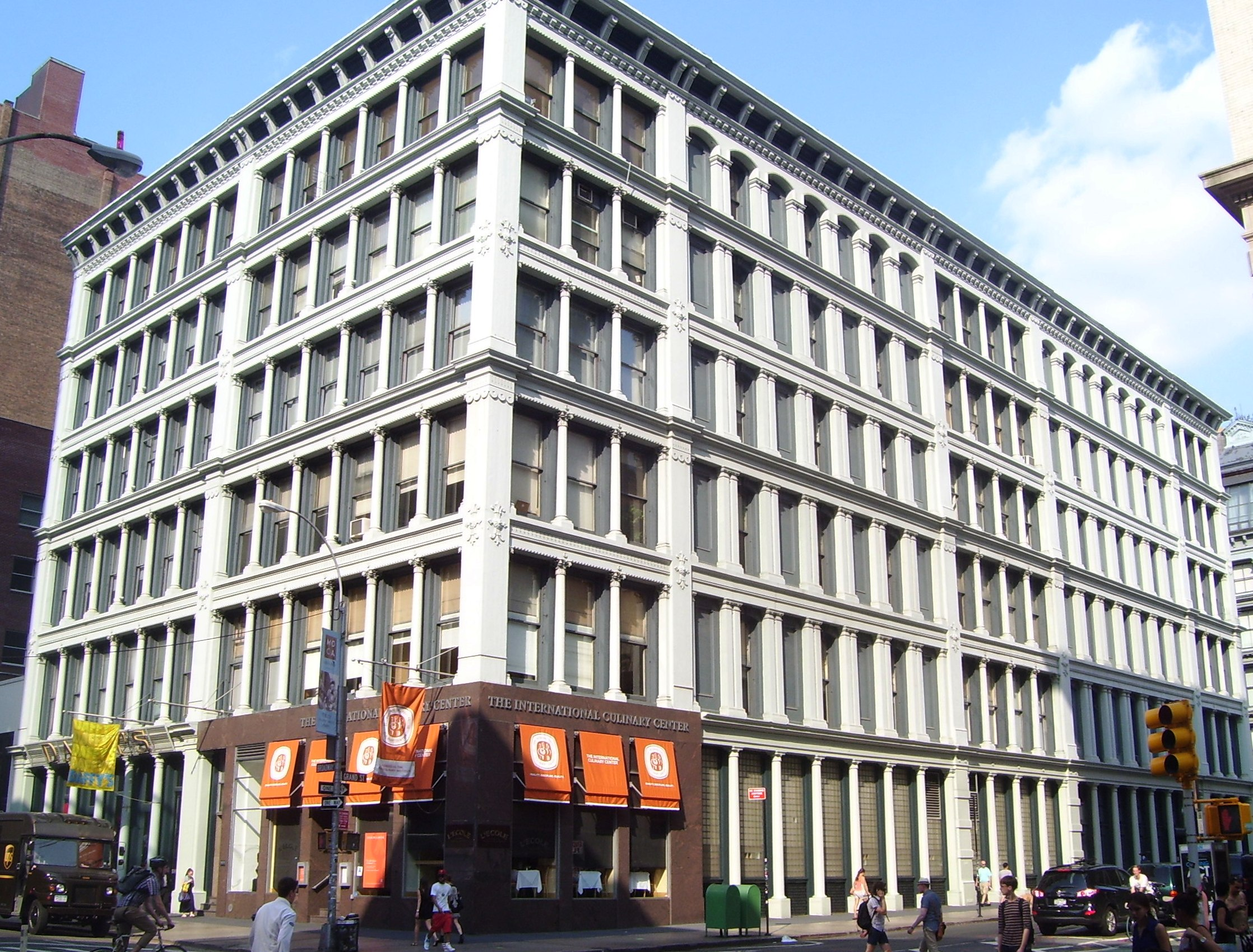 462 Broadway (462-468) on Broadway at the corner of Grand Street and through to Crosby Street, in the SoHo neighborhood of Manhattan, New York City, was built as the Mills & Gibb Building in 1879-80 and designed by John Correja in French Renaissance style. It is also known as 120-132 Grand Street and 30 Crosby Street. (Source: NYCLPC SoHo - Cast Iron District Designation Report